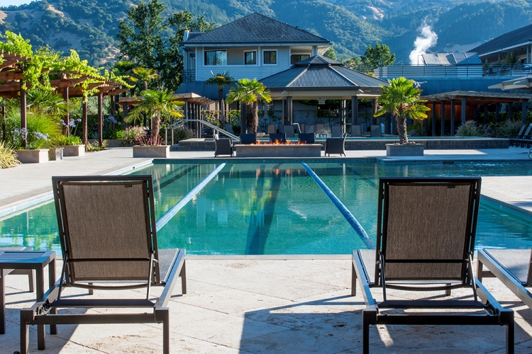 The Lap Pool and Palisades as seen from Calistoga Spa Hot Springs.